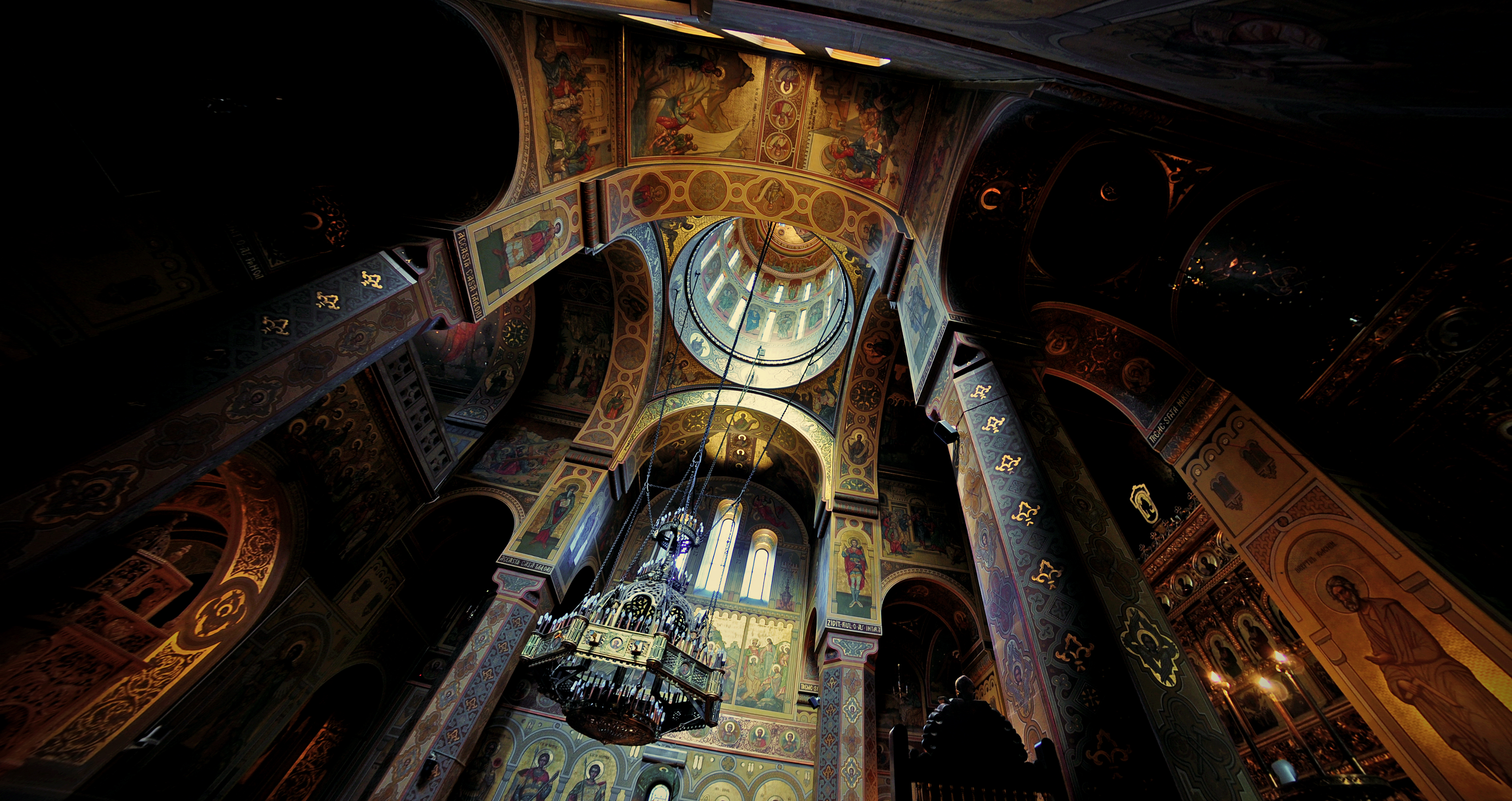 "The Ascension" Church in Targoviste [the Old Metropolitan Cathedral of Wallachia] French architect André Lecomte du Noüy, following Viollet-le-Duc's restoration methods, demolished and rebuilt between 1890 - 1923 the original church from 1508 - 1537